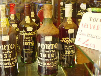 Several bottles of vintage port, including some from the Niepoort Port House